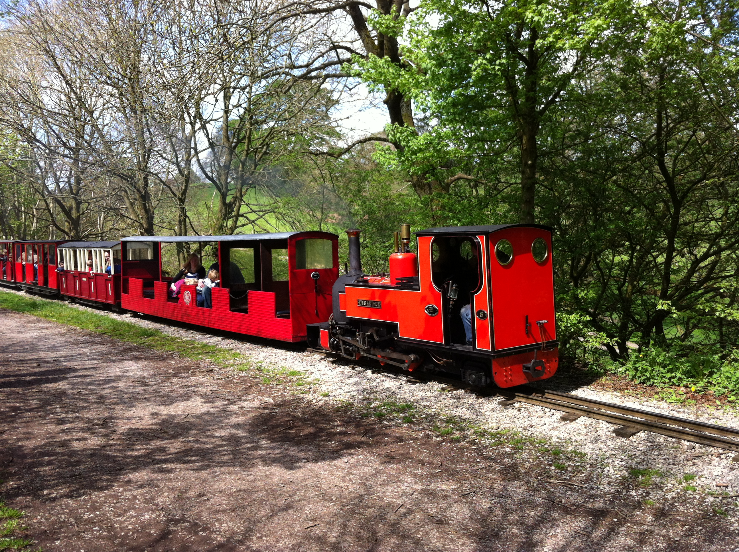 Train running on the Rudyard Lake Steam Railway